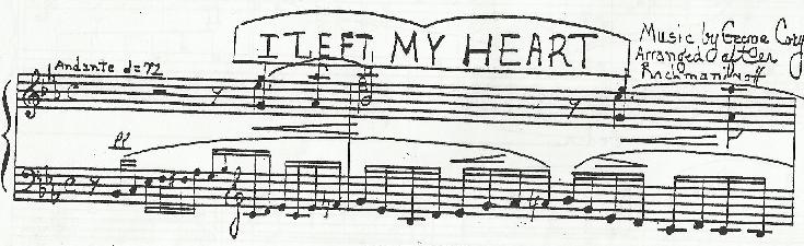 I Left My Heart by Robert Boury.